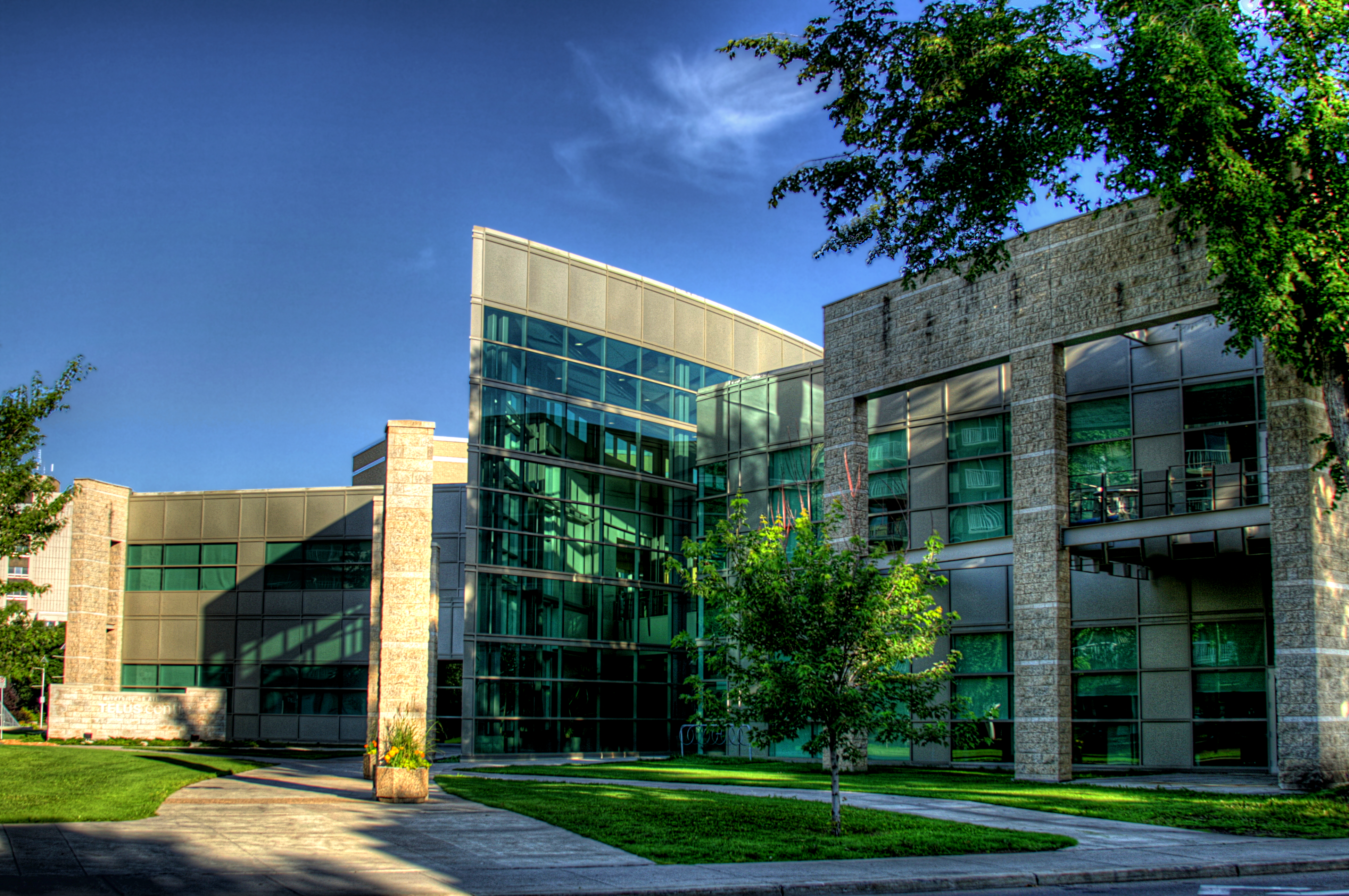 The Telus Centre building on the University of Alberta north campus, Edmonton, Alberta, Canada.